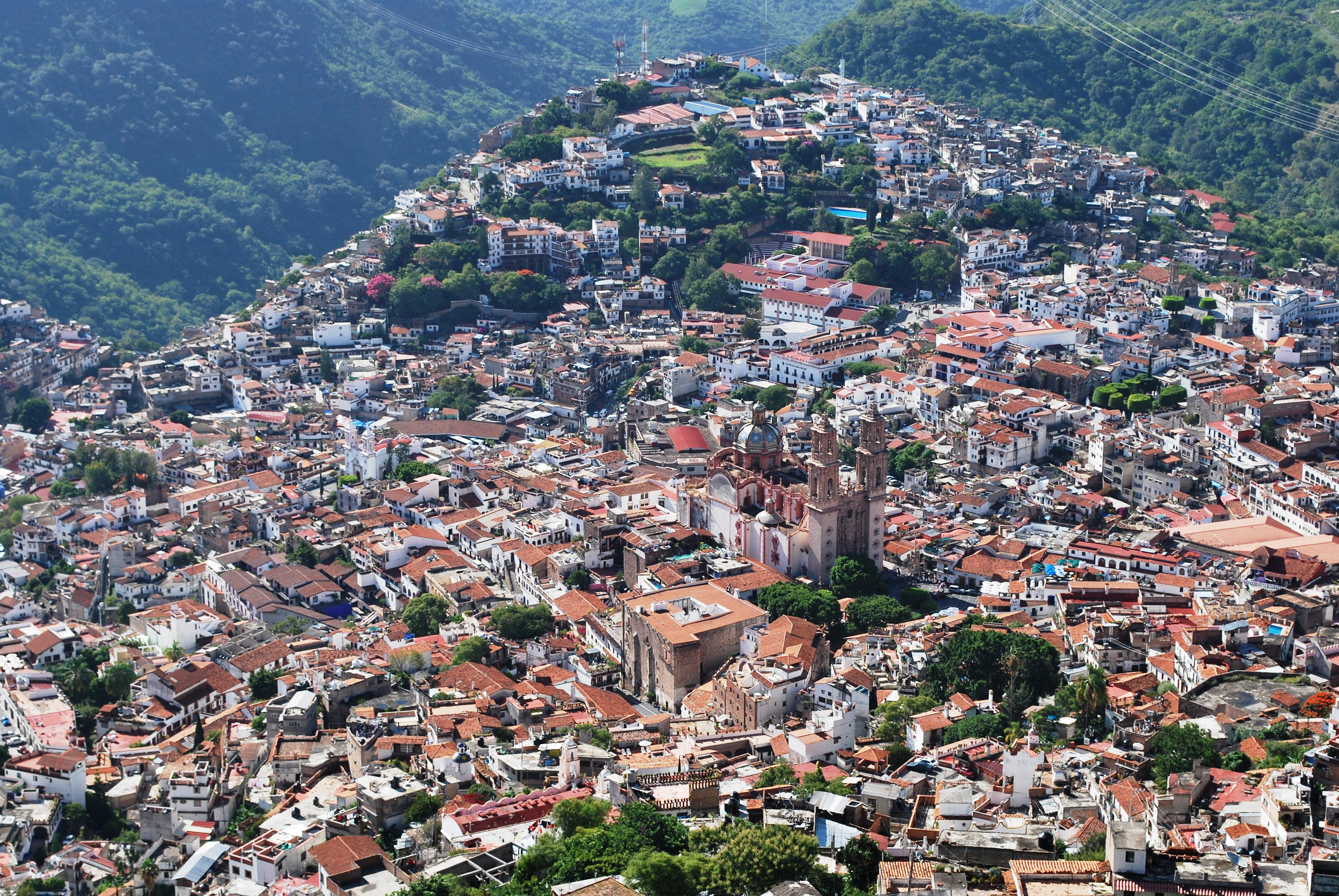 Panoramic of the city center of Taxco de Alarcon, Guerrero, Mexico. Viewed from the Christ Monument looking southeast.